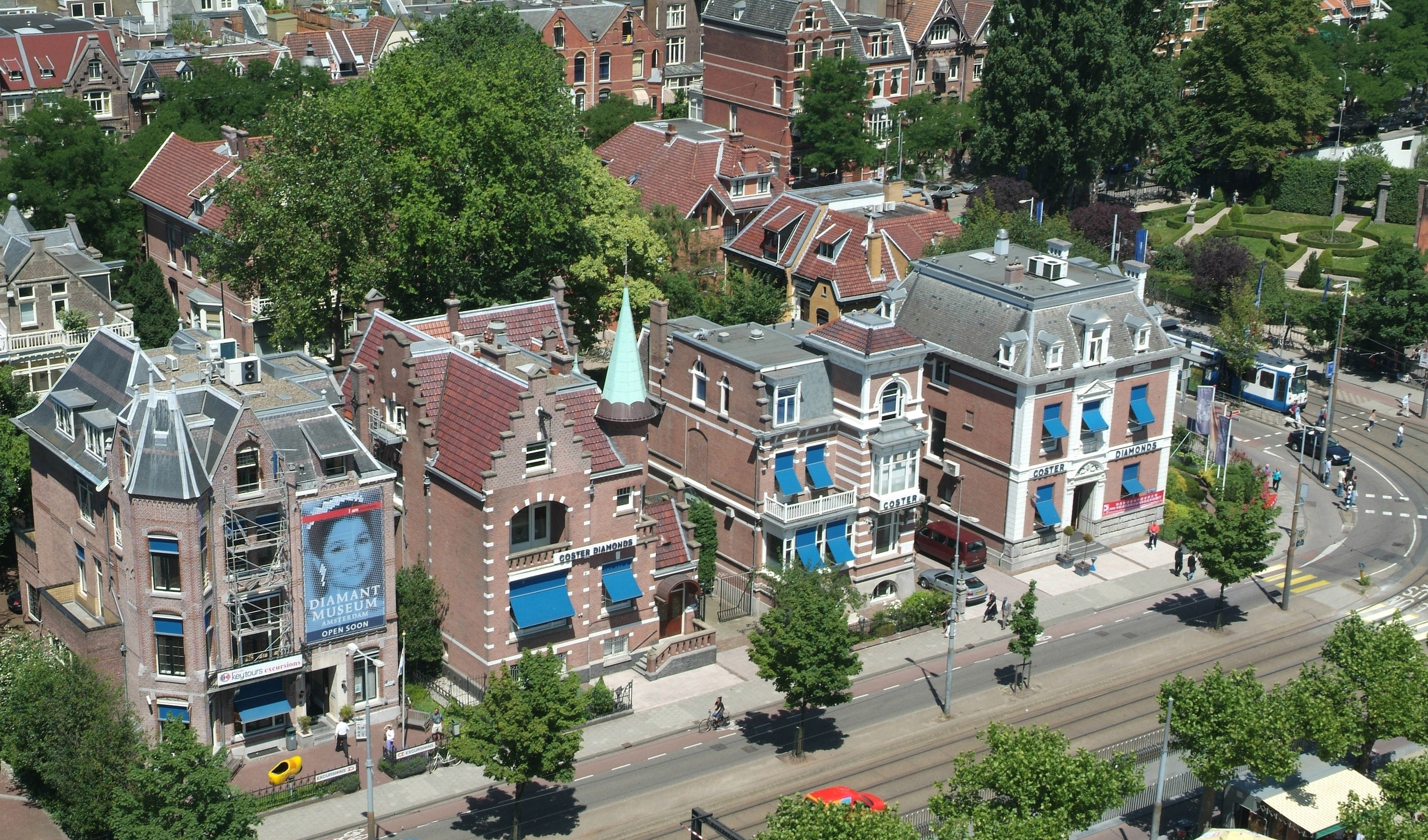 Aerial photo of the headquarters of the diamond cutter and retailer, Coster Diamonds; Amsterdam, Netherlands.